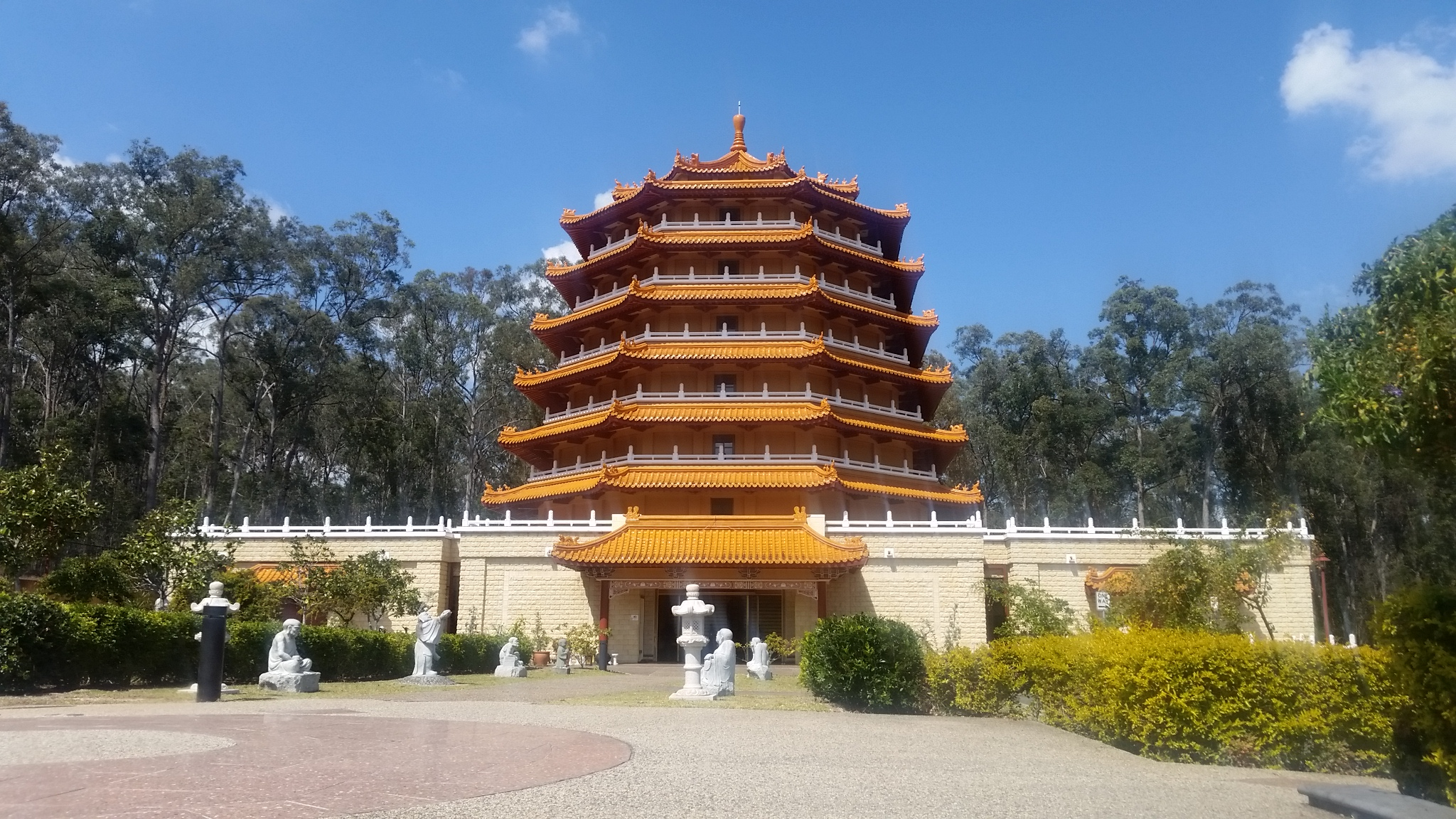 The seven-tiered style of Chung Tian’s Pagoda location : 1034 Underwood Road Priestdale, QLD 4127 meaning: Its tapering design reaching to the sky is synonymous with the idea of practicing Buddhism step-by-step which eventually led to supreme enlightenment:).